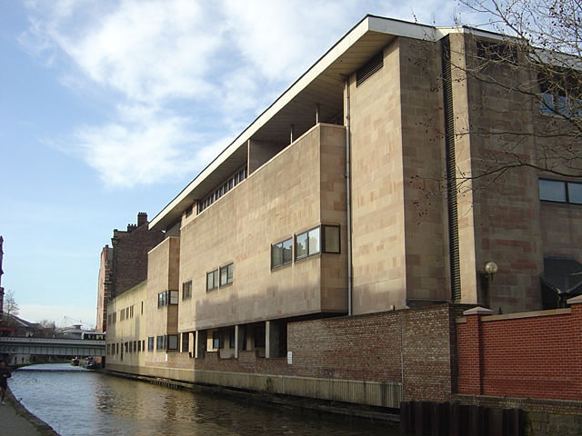 Nottingham Crown and County Courts - the rear of the building, overlooking the canal.